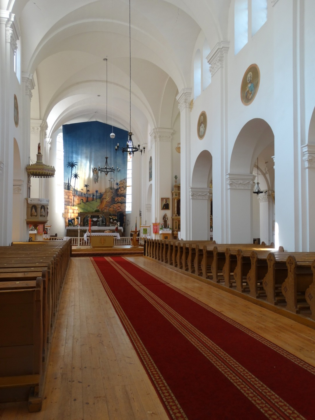 Saint Matthew church in Krakės, interior, Kėdainiai district, Lithuania